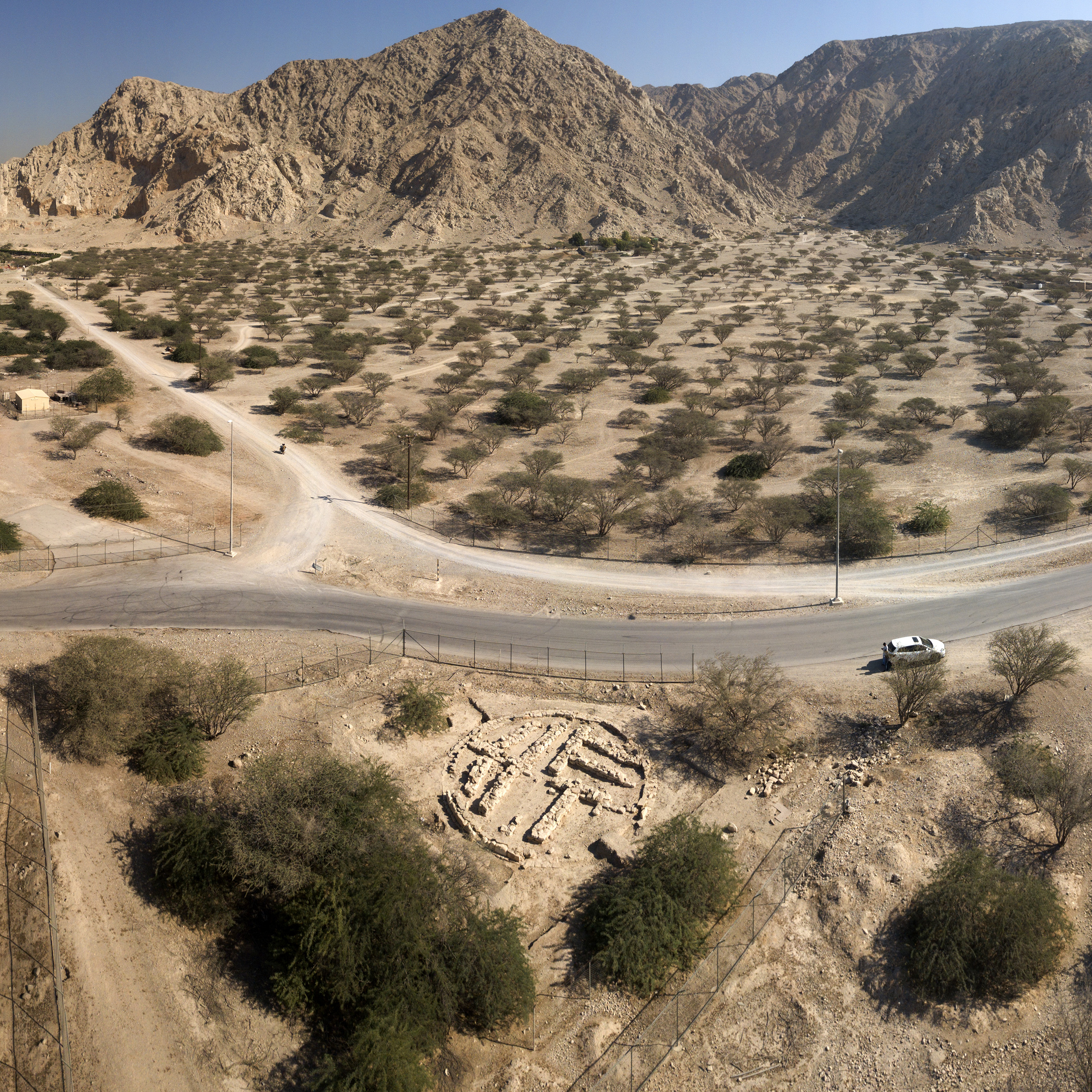 This is a round Umm Al Nar type tomb from Shimal, Ras Al Khaimah